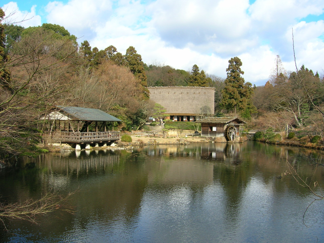 Gassho Zukuri (Gassho style house in Higashiyama botanical gardens. It was dismantled and reconstructed the building from the Shirakawa-go village in 1956. This build 1842) Loc: Chikusa-ku, Nagoya city, Aichi Prefecture, Japan 東山植物園・天保13年に建てられ、昭和31年に白川郷から移築された合掌造り。 撮影場所 愛知県名古屋市千種区